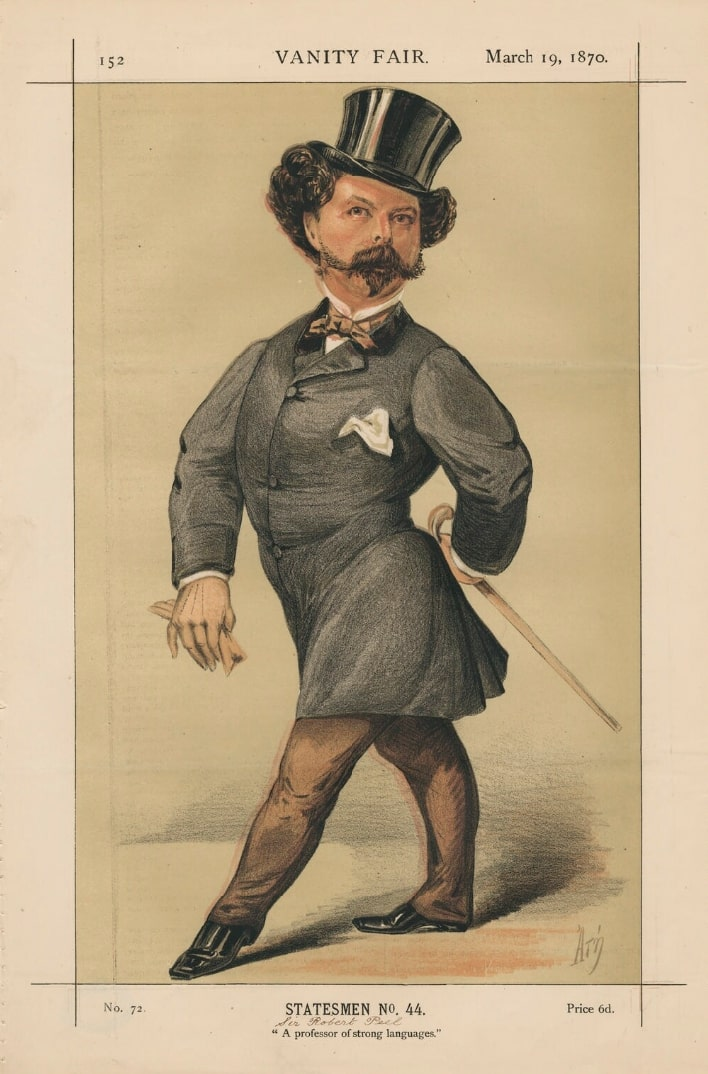 Caricature of Sir Robert Peel (1822-1895). Caption read "A professor of strong languages".